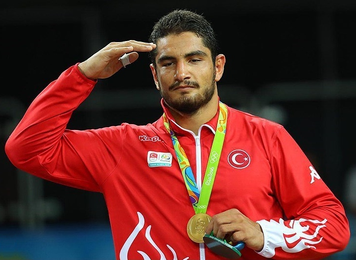 Taha Akgül from Turkey won gold medal at the 2016 Summer Olympics. Men's Freestyle Wrestling 125 kg